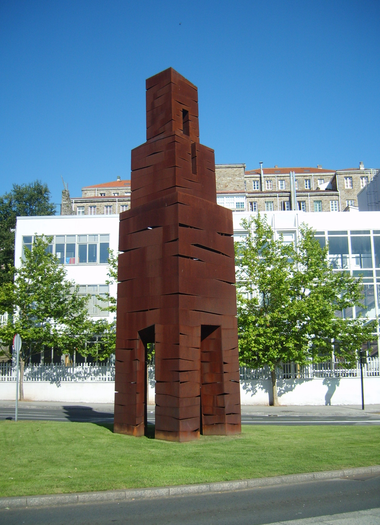 Sculpture "Encuentro Cardinal", by Julio Camba and Luis Borrajo, installed in Santiago de Compostela in 1998.